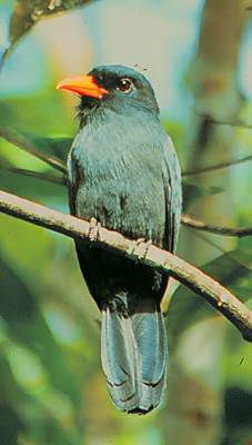 Black-fronted Nunbird